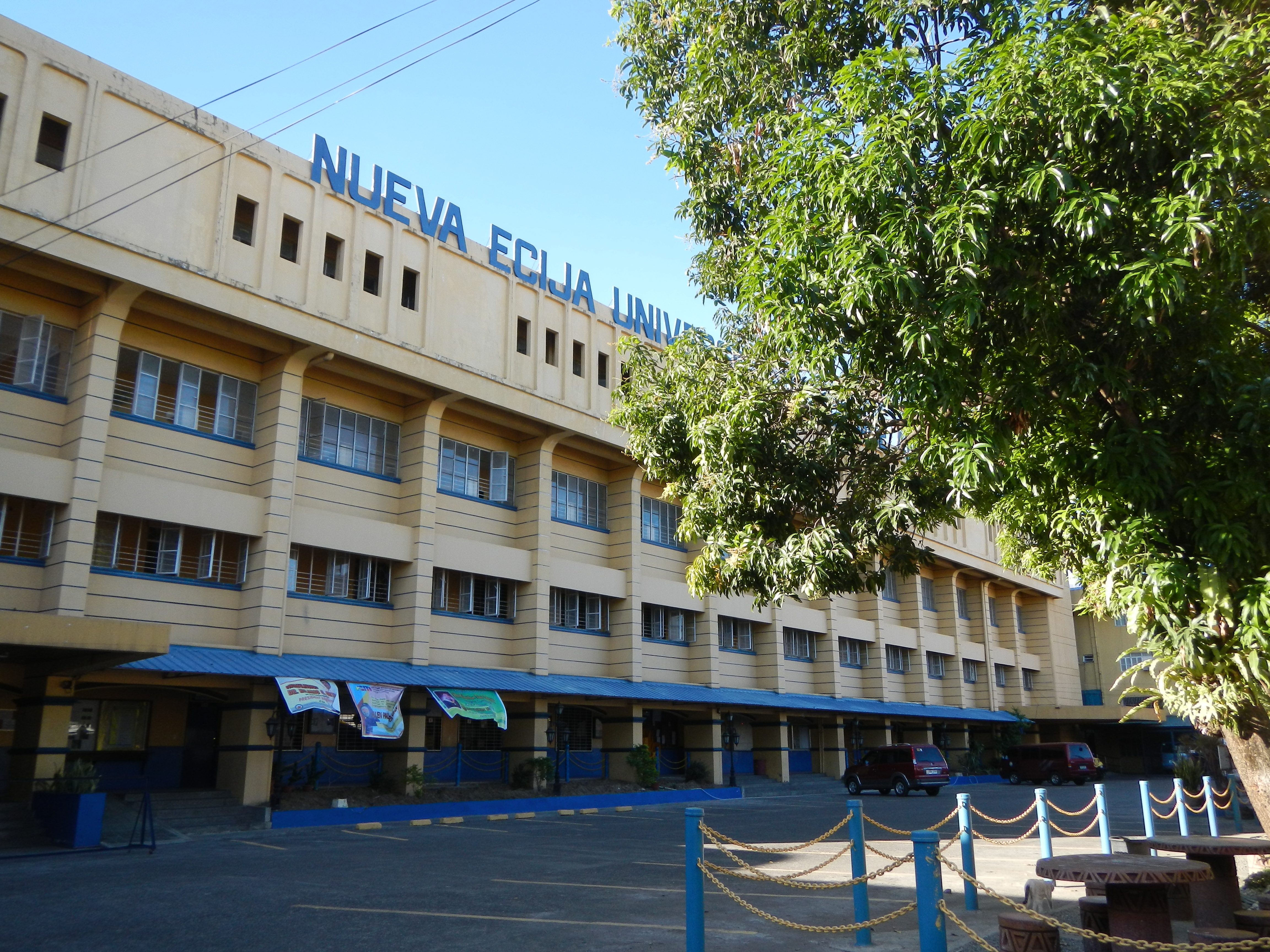 Nueva Ecija University of Science and Technology [1] commonly abbreviated as N.E.U.S.T., is a university , Founded: June 7, 1929 located in Barangay Quezon District and Mabini Homesite (Poblacion), Cabanatuan City, Nueva Ecija, Central Luzon, Philippines; the university offers graduate and undergraduate courses in many specialized fields as well as vocational training programs; [2] Campuses in Carranglan, inter alia, Nueva Ecija [3].